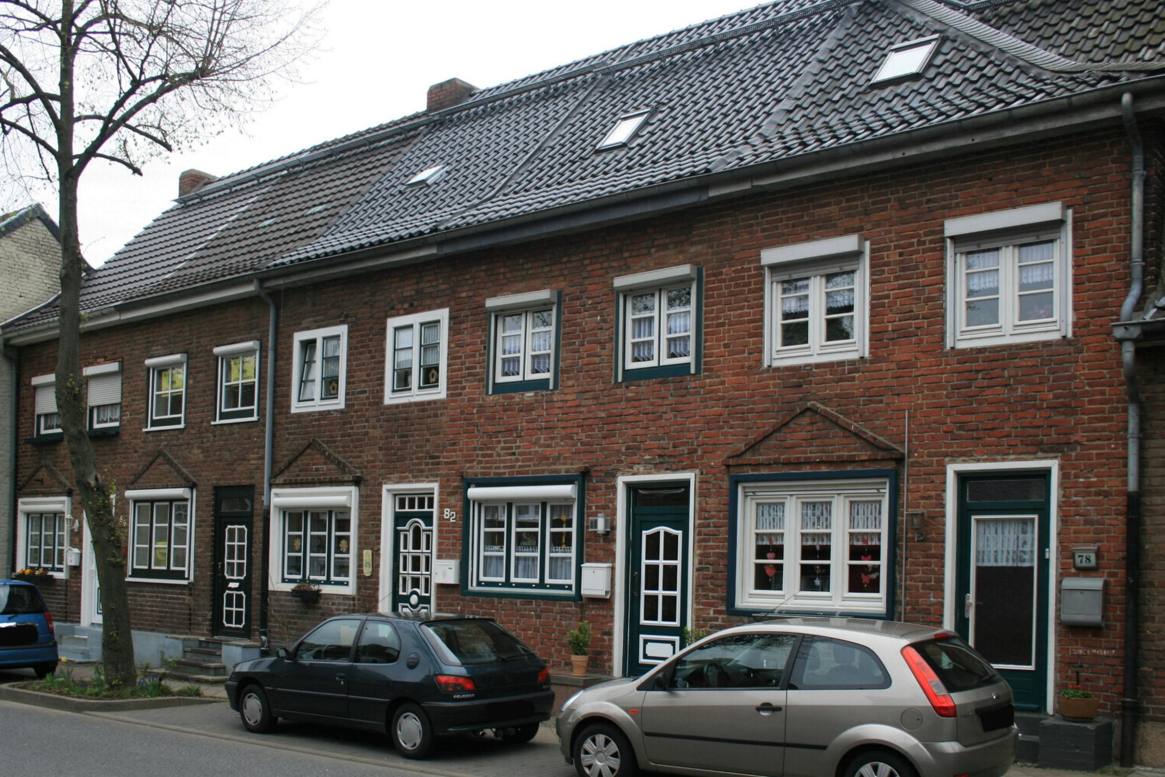 Cultural heritage monument No. 1/085 in Düren